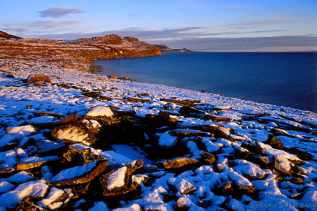 Samisk gravkammer på Mortensnes, Nesseby, Finnmark.